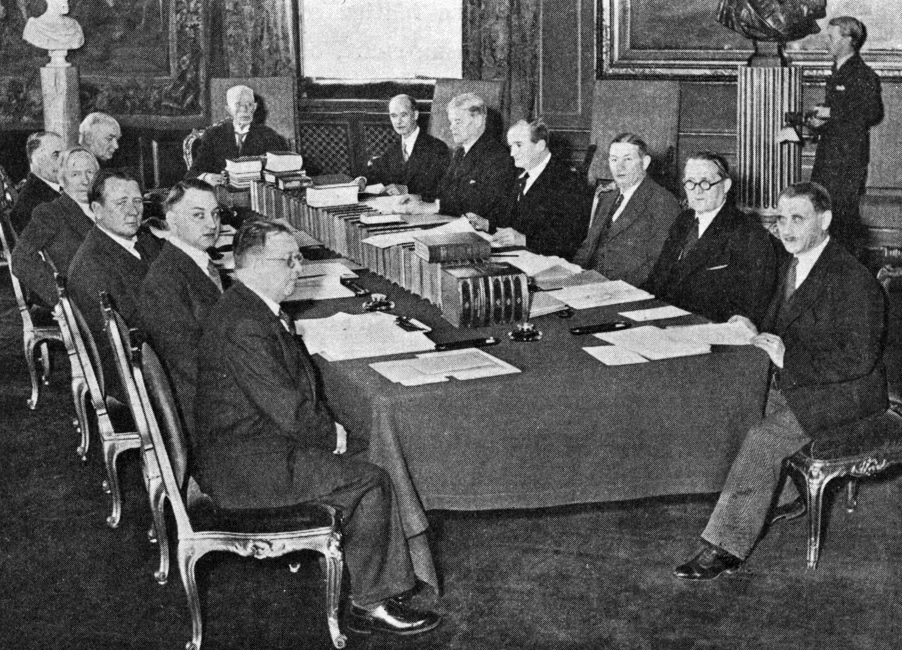 Meeting of the Council of State in Sweden 1938. King Gustav V presides at the end of the table; to his right: Prime Minister Per Albin Hansson, Minister for Agriculture Axel Bramstorp, Minister of Finance Ernst Wigforss, Minister of Ecclesiastical affairs Artur Engberg and the consults N. Quensel and Herman Eriksson; to his left: Minister of Foreign Affairs Rickard Sandler, Minister of Justice K.G. Westman, Minister of Trade Gustaf Möller, Minister of Defense P.E. Sköld, Minister of Health and Social Affairs A. Forslund, and Minister of Communications G. Strindlund.